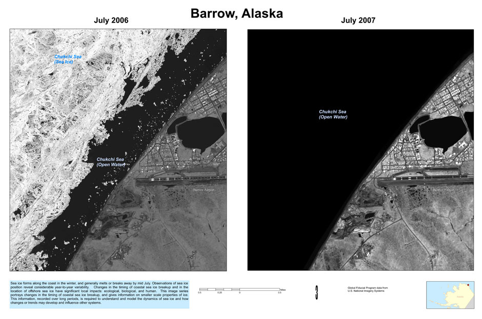 Sea ice forms along the coast in the winter, and generally melts of breaks away by mid July. Observations of sea ice position reveal considerable year-to-year variability. Changes in the timing of coastal sea ice breakup and in the location of offshore sea ice have significant local impacts: ecological, biological, and human. This image series portrays changes in the timing of coastal sea ice breakup, and gives information on smaller scale properties of ice. This information, recorded over long periods, is required to understand and model the dynamics of sea ice and how changes or trends may develop and influence other systems. History of classified status, and FOIA requests of this image